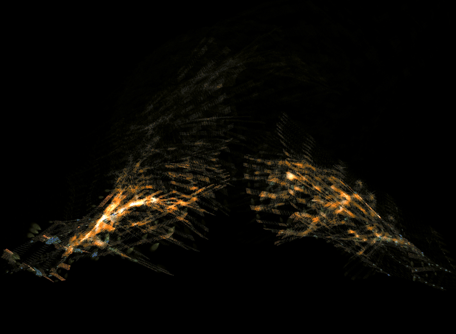 Still frame from Loops, a digital art installation by The OpenEnded Group that interprets Merce Cunningham's motion-captured dance for the hands. Artwork released as open source; motion capture data licensed under a Creative Commons license.